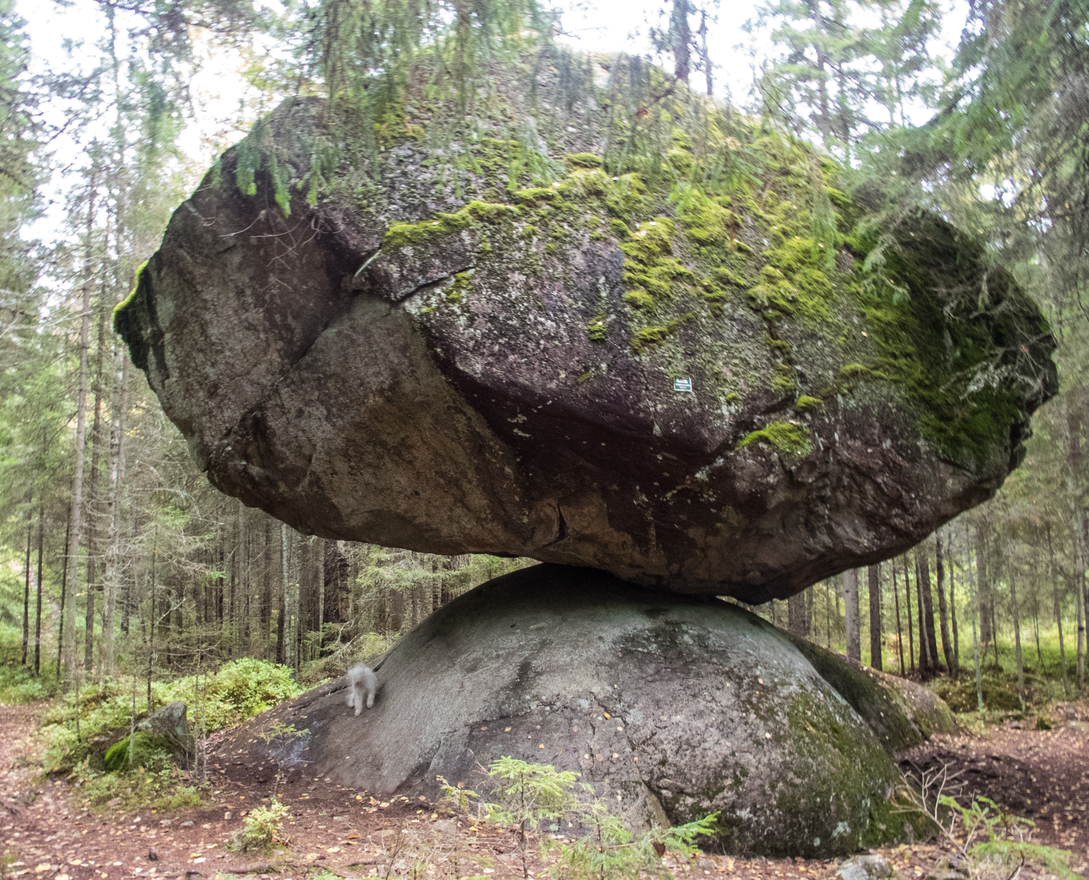 A large precarious boulder called Kummakivi (”Strange stone”), located in Ruokolahti, southeastern FInland. A white miniature schnauzer under it gives an idea of the scale.